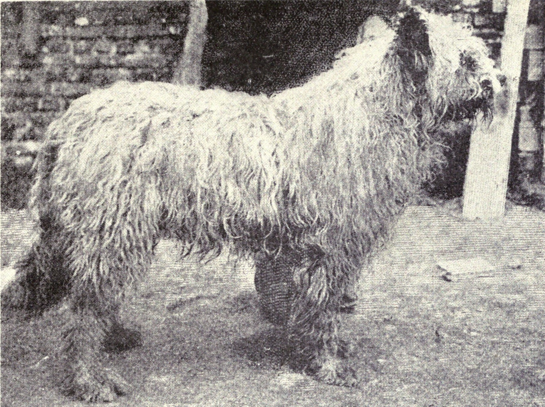 Owtchar aka Russian Sheepdog from 1915